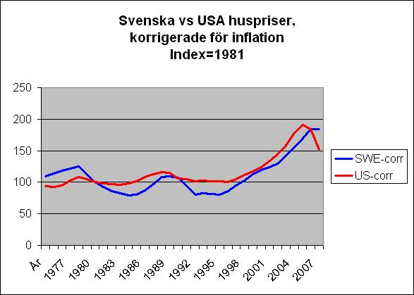 Visar en graf med inflationskorrigerade priser, KPI för respektive land har använts för korrigeringen. Bas 1981. Data collected from and SCB (swedish statistics agency), graph created in Excel.